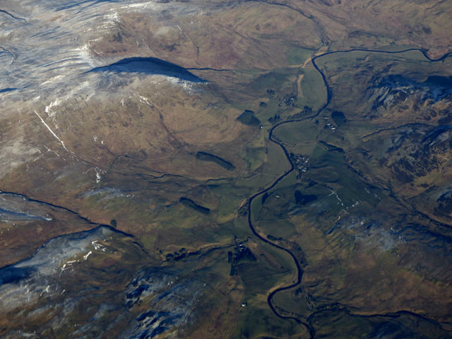 Ettrick Water from the air